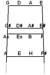 Fingering chart for Peter Prelleur, The Modern Musick-Master (1730). "The Art of Playing an the Violin"